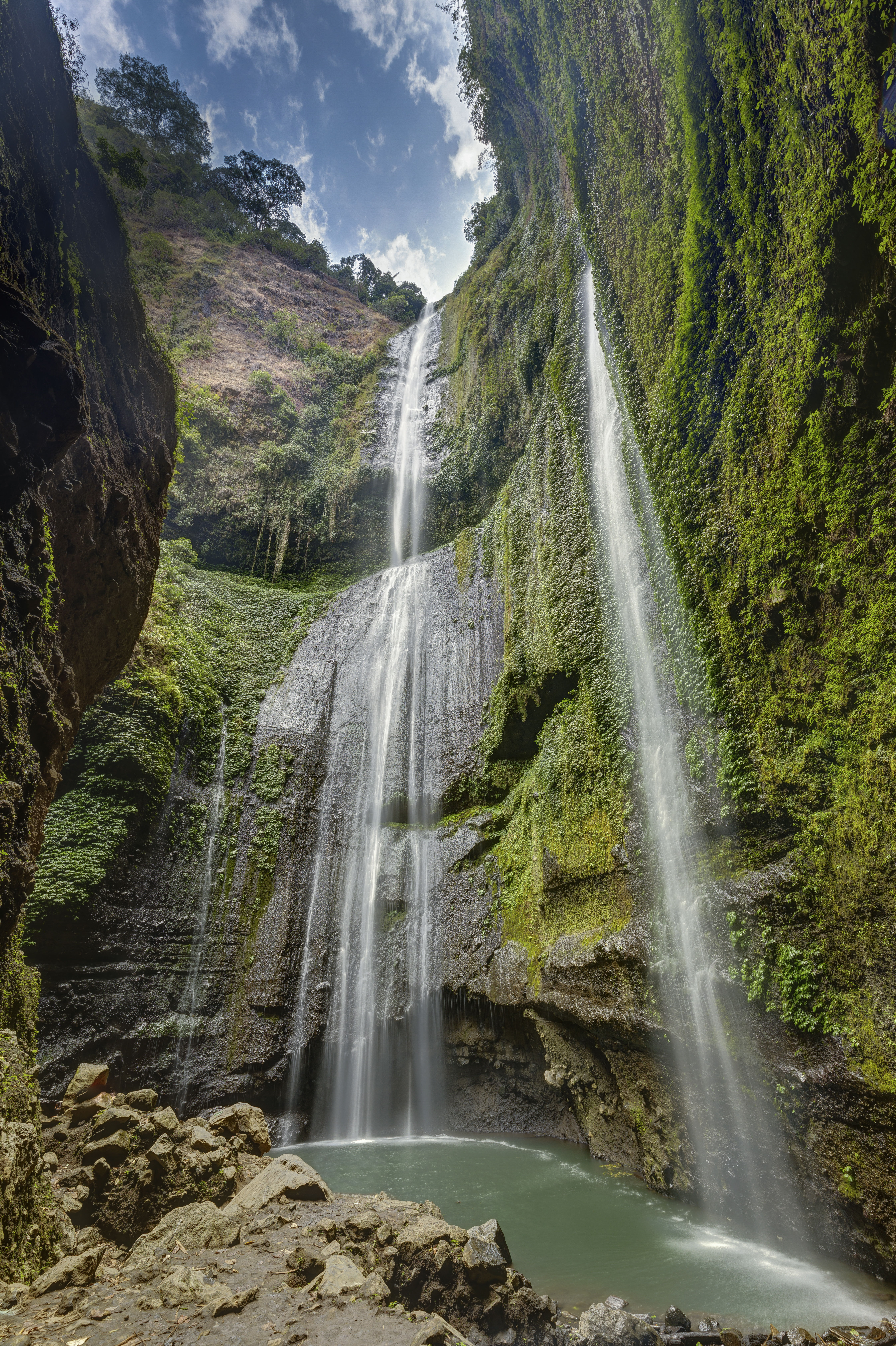 Madakaripura Waterfall - taken during a photo trip to Indonesia in 2018 - by Thomas Fuhrmann - see more pictures on